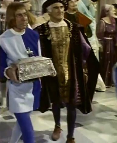 Tudor Owen (center) in Jack the Giant Killer - trailer (cropped screenshot)